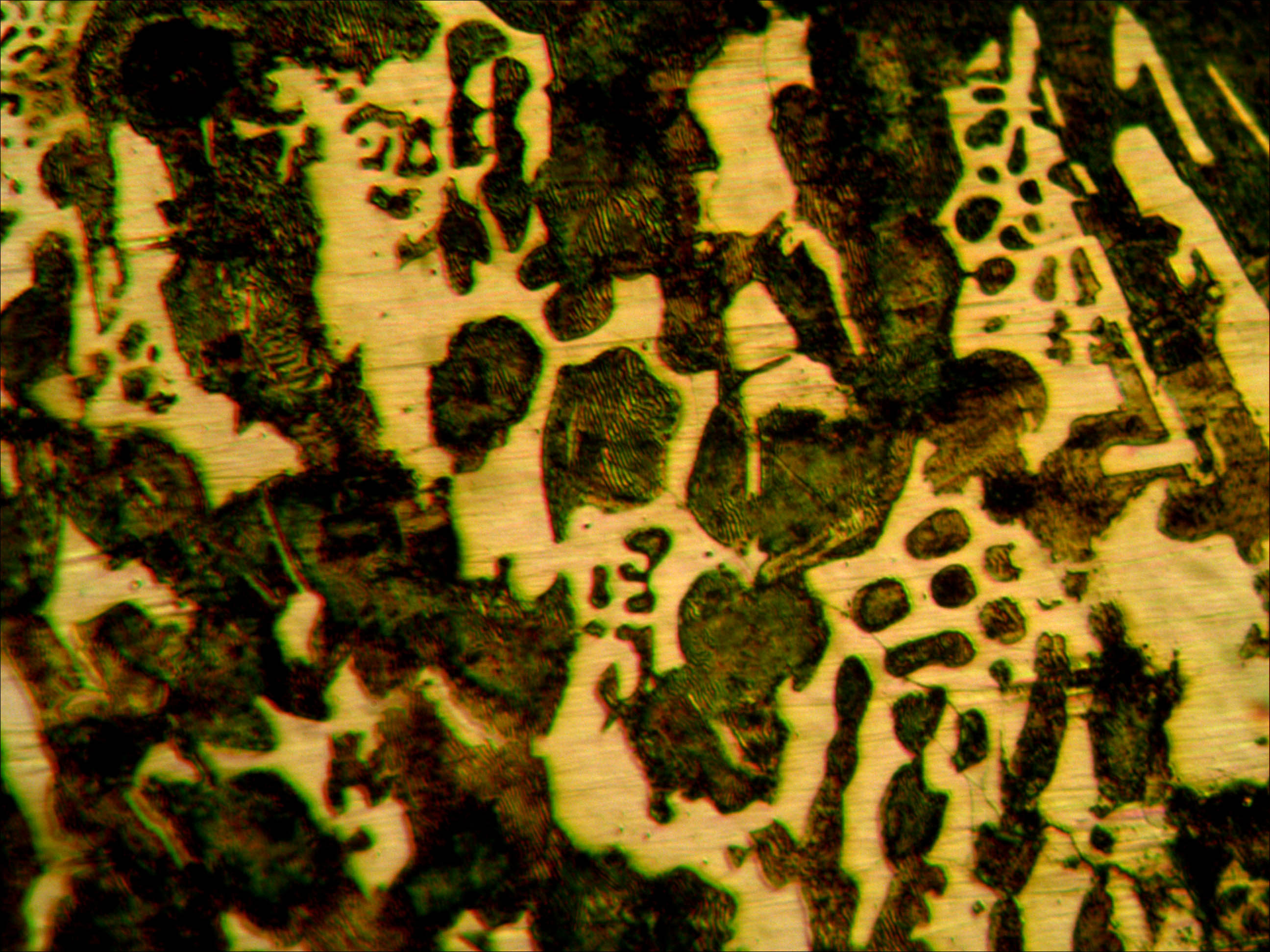 Microstructure of white cast iron